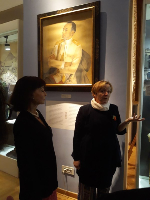 Jelisaveta Karadjordjevic i Tamara Ognjevic